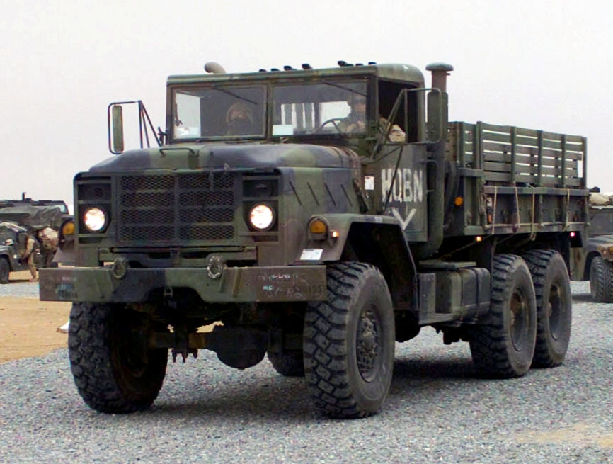 A US Marine Corps (USMC) M923 (6X6) 5-ton cargo truck heads a convoy departing Camp Matilda, Kuwait, after a desensitization exercise, during Operation ENDURING FREEDOM. (cropped)